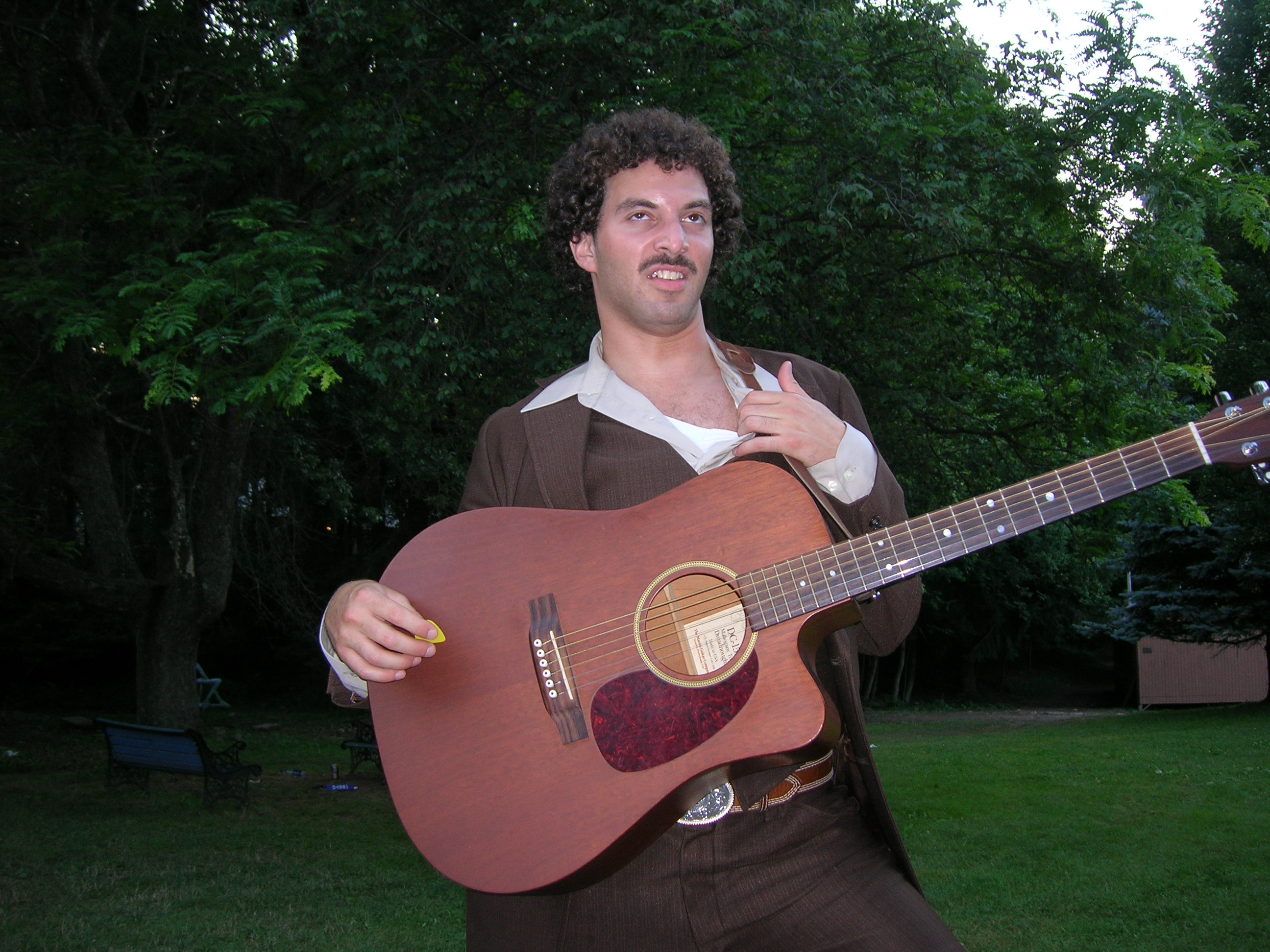 Joel Moss Levinson performing at BBYO's Kallah East Convention at the B'nai B'rith Perlman Camp in Lake Como, PA in the Summer of 2005